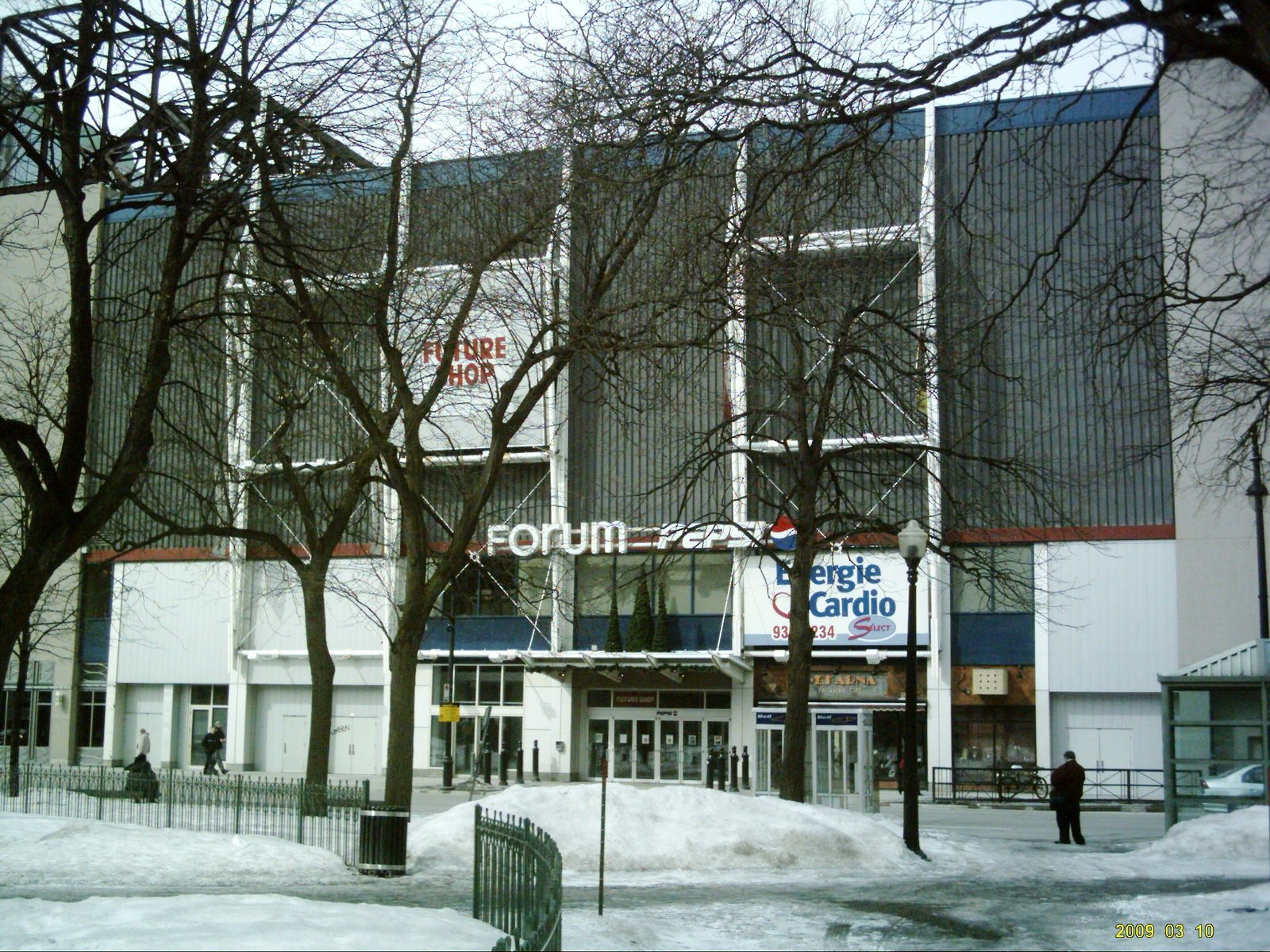 AMC